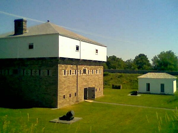 I took this picture in the summer of 2005.